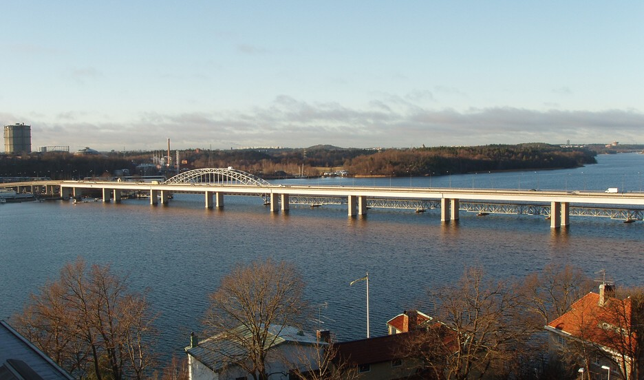 Lidingö bridges, view towards Stockholm. Picture from Hotel Foresta, Lidingö.